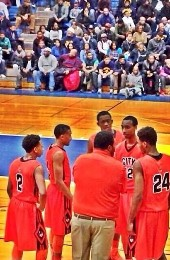 A look at the 2014 City College boys basketball team during a timeout. Captioned As { }